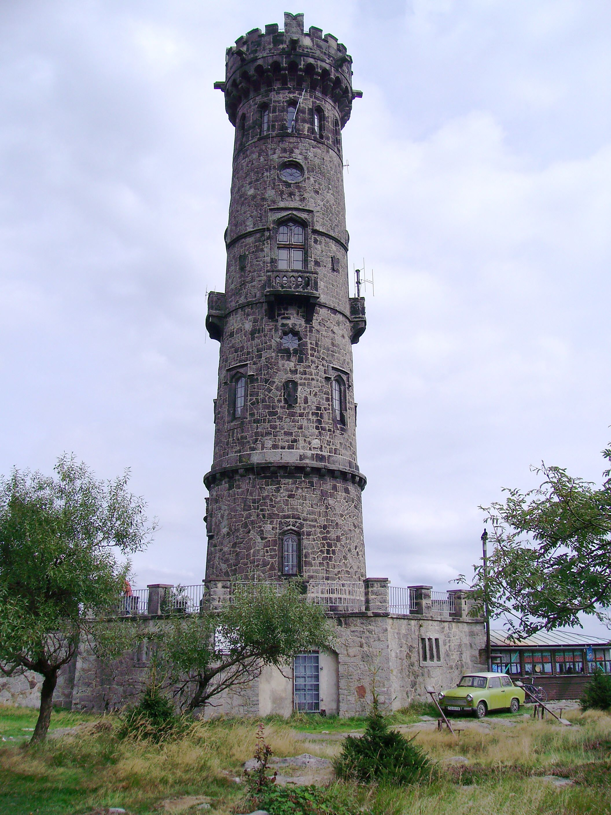 Lookout tower at Děčínský Sněžník (723 m) in Elbe Sandstone Mountains, Czech Republic.